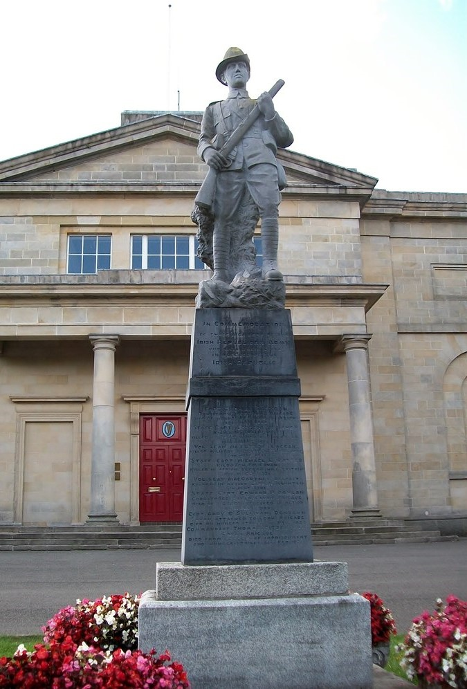 The Thomas Ashe Memorial in Farnham Street, Cavan